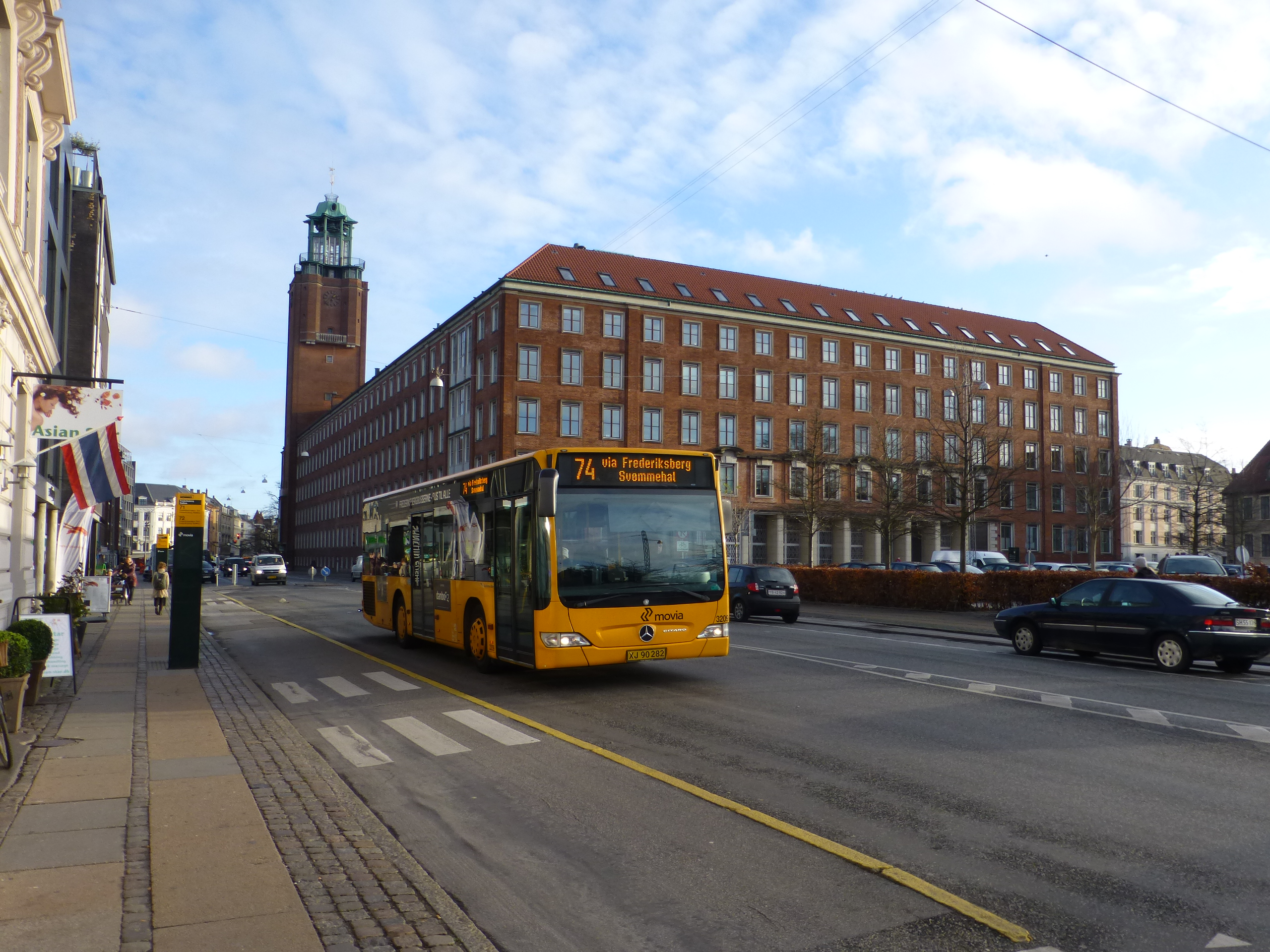 Movia bus line 74 on Smallegade in Frederiksberg in Copenhagen with Frederiksberg Town Hall in the background.